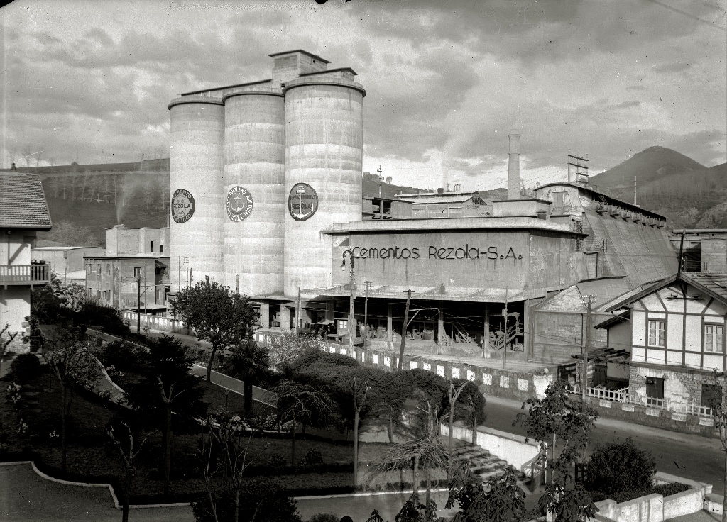 Rezola cement factory